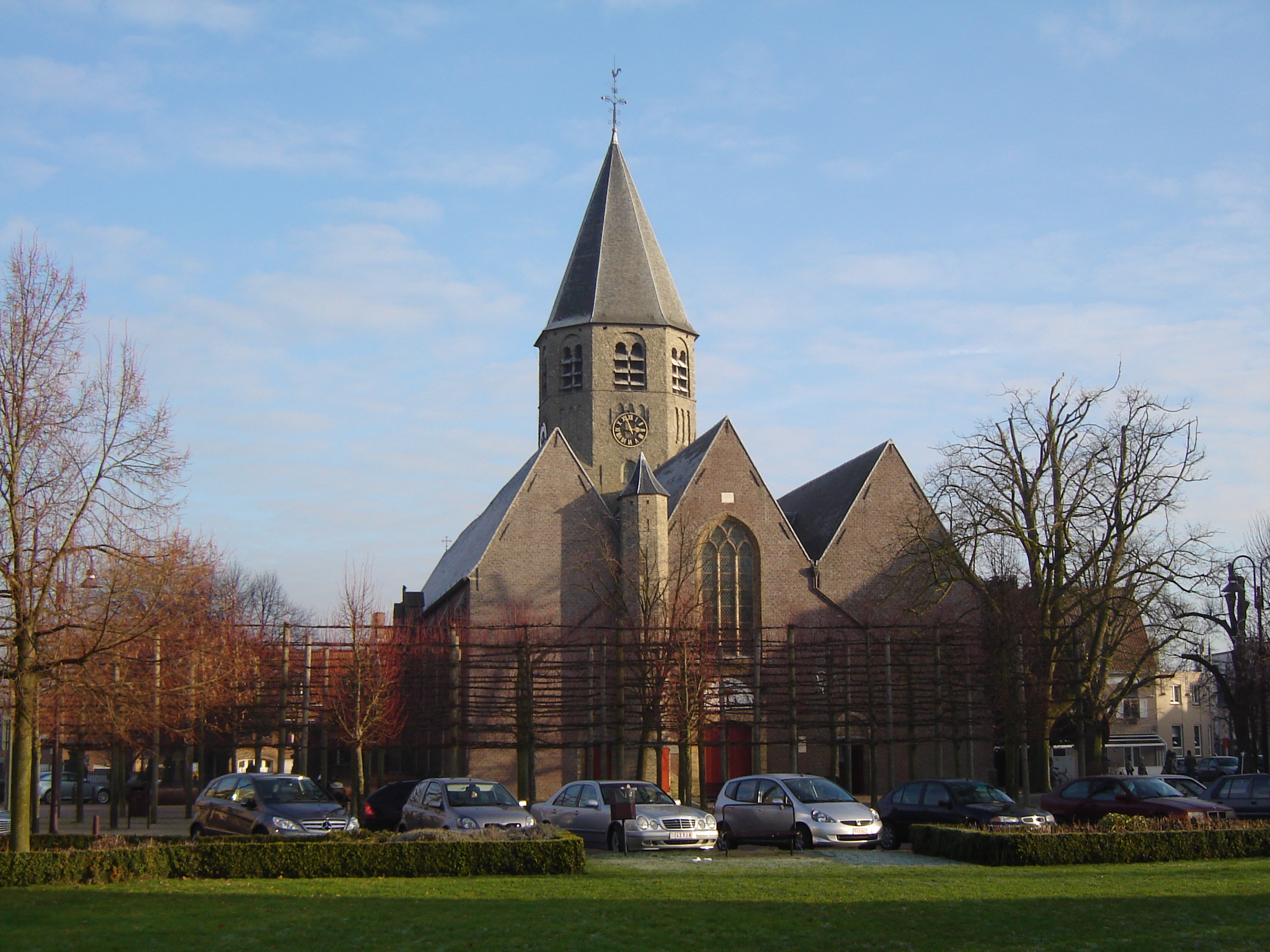 Church of Saint Peter in Oostkamp. Oostkamp, West Flanders, Belgium